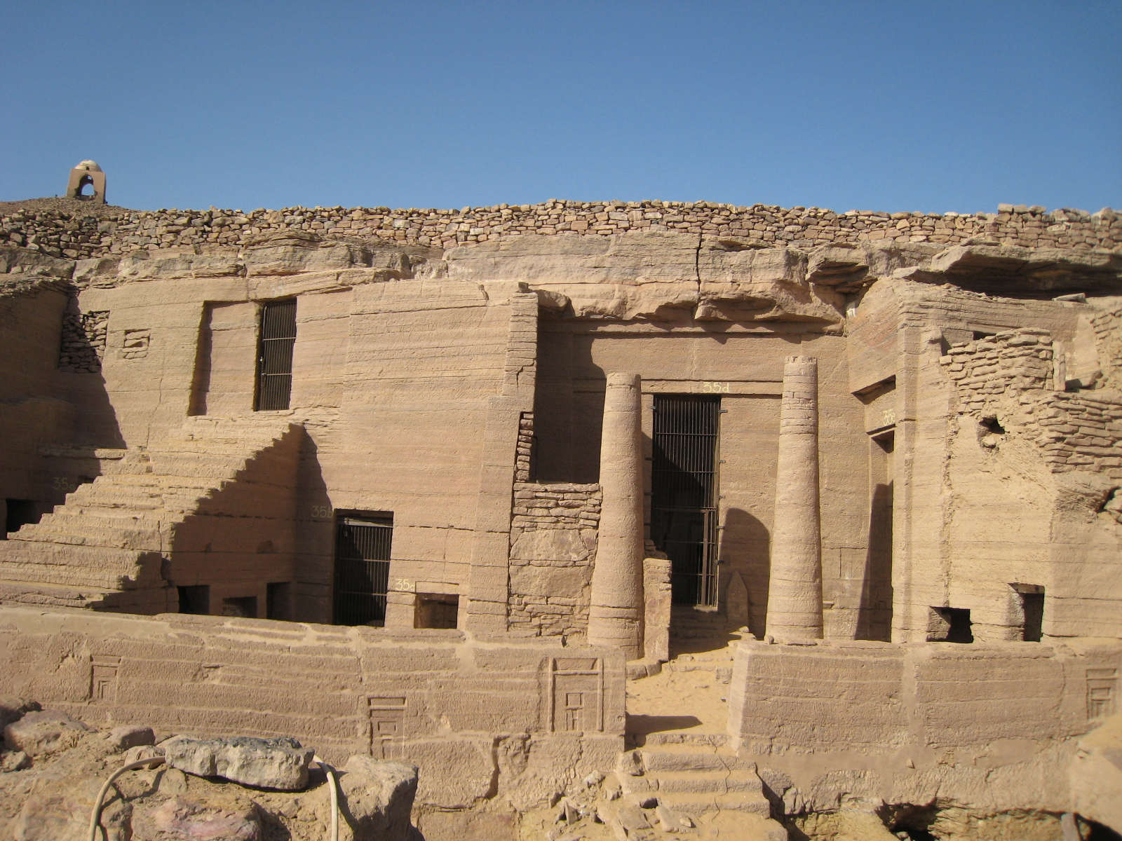 Tomb of Pepinakht. 6th dynasty tombs at Qubbet el-Hawa - Aswan. IMG_6393